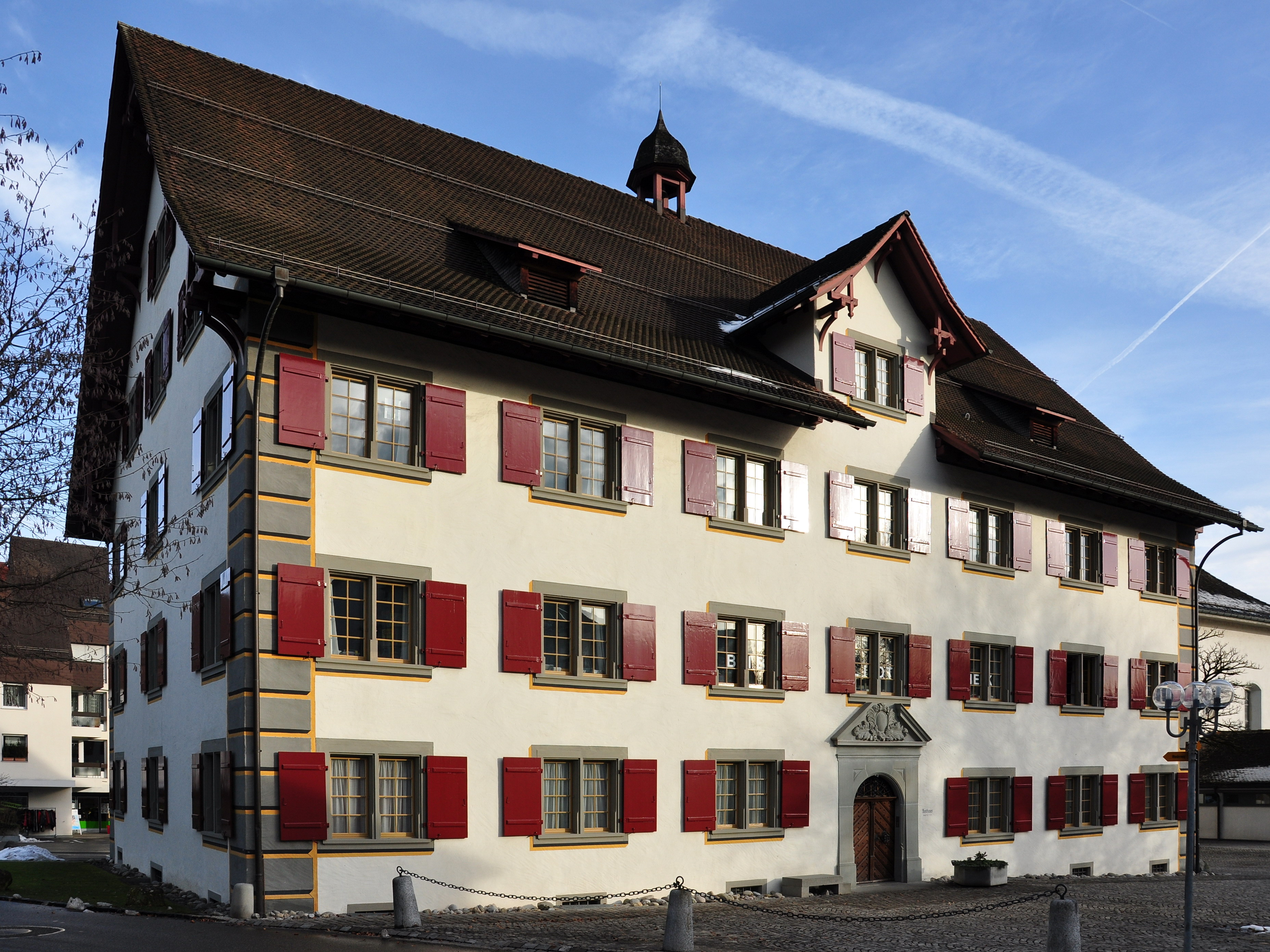 Rüti (Switzerland) : Former Rüti Abbey, Amthaus (Bailiff's house).